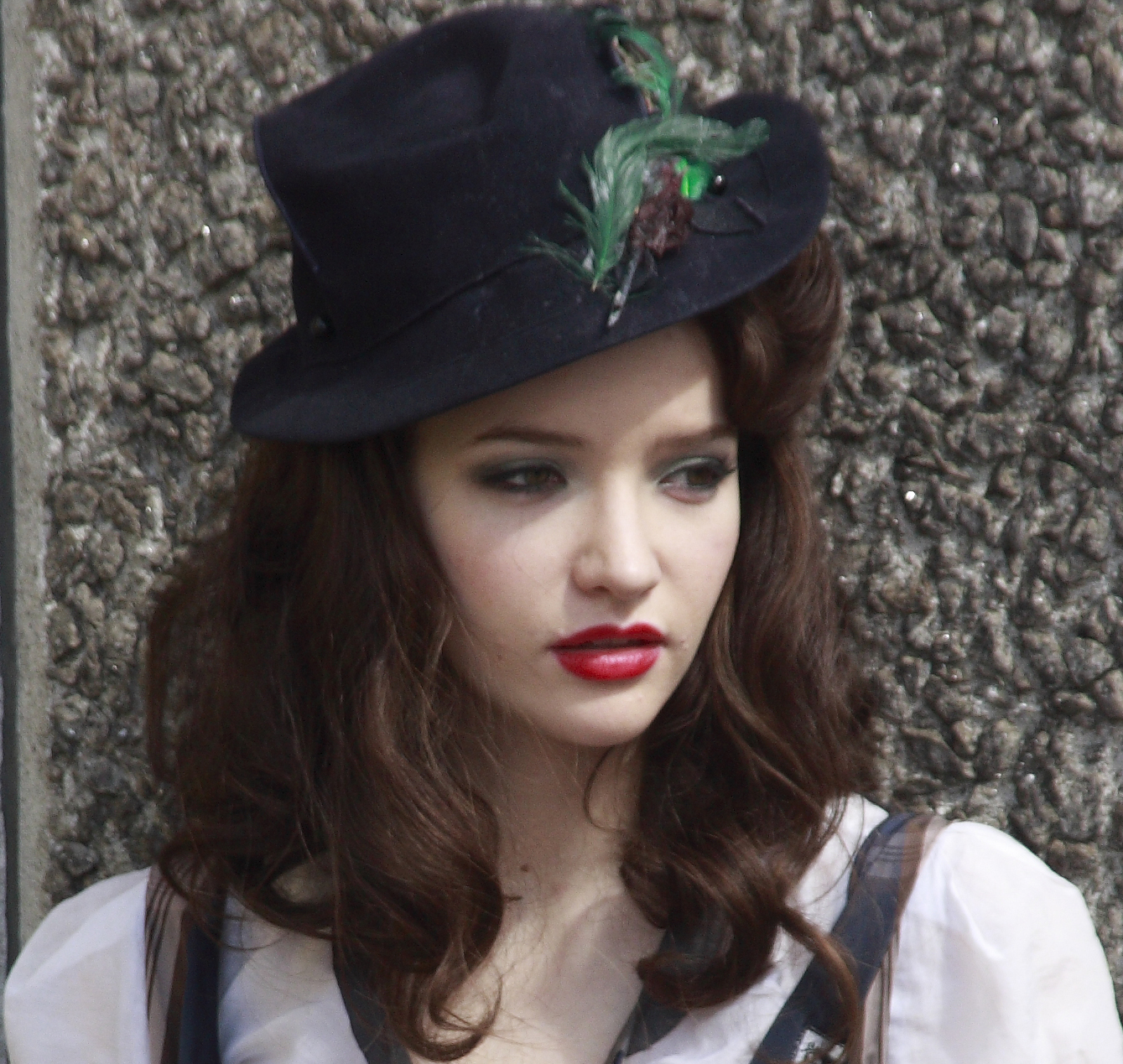 Talulah Riley on the set of St. Trinian's 2: The Legend of Fritton's Gold in August 2009.